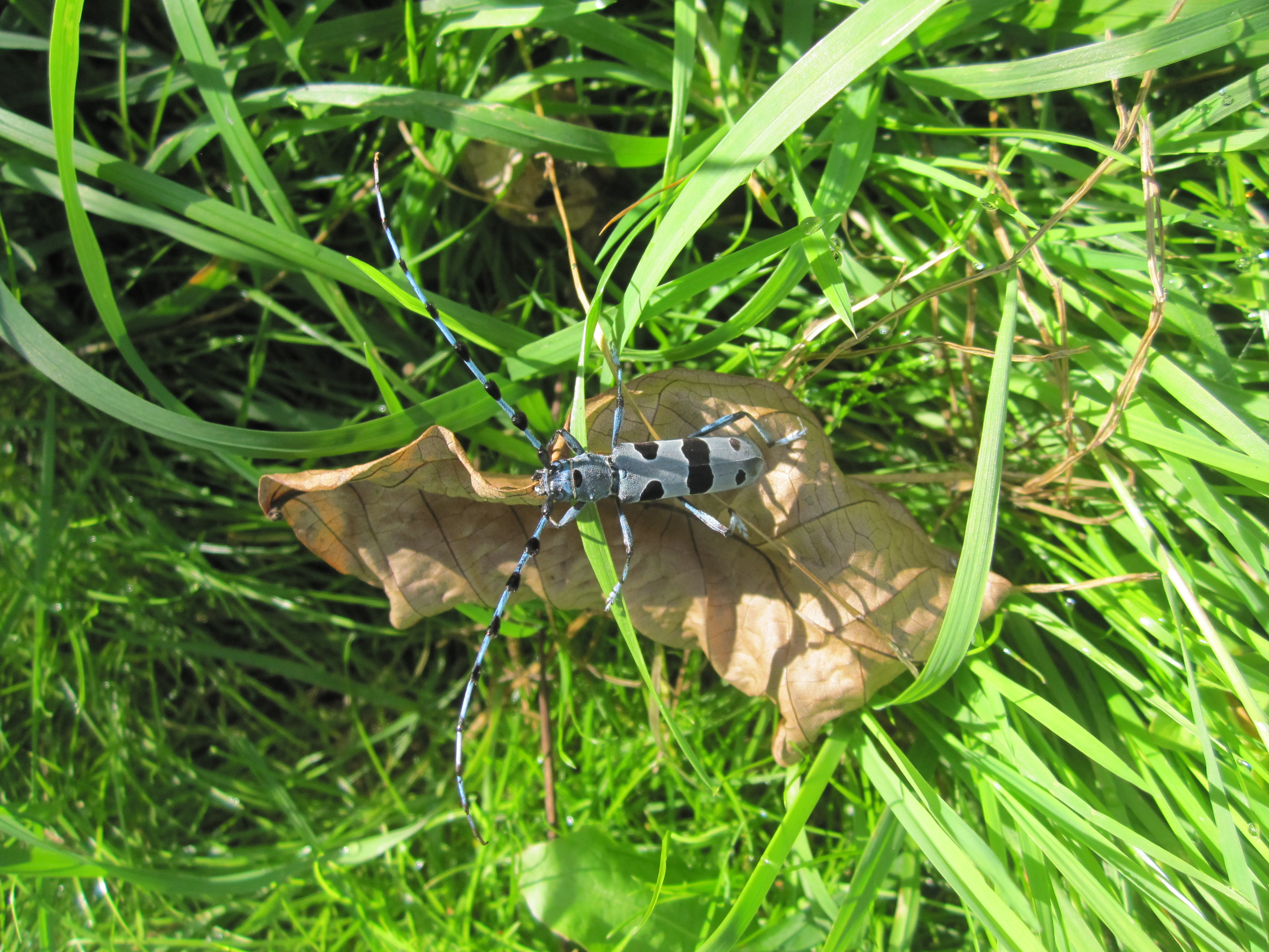 Rosalia longicorn (Rosalia alpina), Dolná Ves, Slovakia